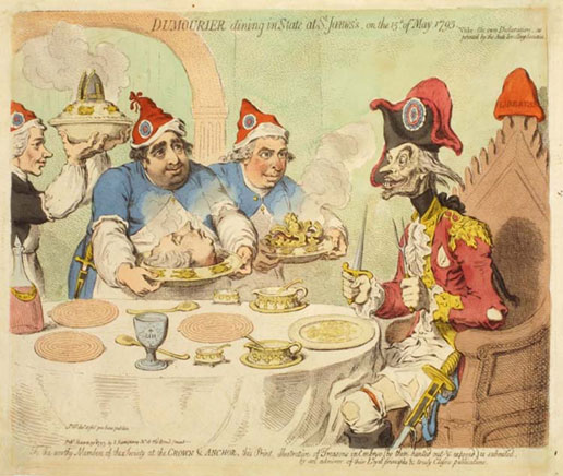 Dumourier Dining in State at St James's, on the 15th of May, 1793 by James Gillray. Published 30 March 1793 by H. Humphrey, No. 18 Old Bond Street. “One of Gillray’s finest efforts, particularly impressive in colored impressions. Priestley bearing a mitre-crowned pie, Fox carrying the steaming head of Pitt on a platter garnished with frogs, and Sheridan holding the royal crown on a salver approach a table at which is seated the tatterdemalion figure of the French General Dumourier. Dumourier’s rumored invasion of England was never to take place but the nature of the trio’s putative allegiance and of their 'treasons in embrio' are marvelously evolved.” (British Museum # 8318).